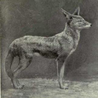 A Turkish jackal